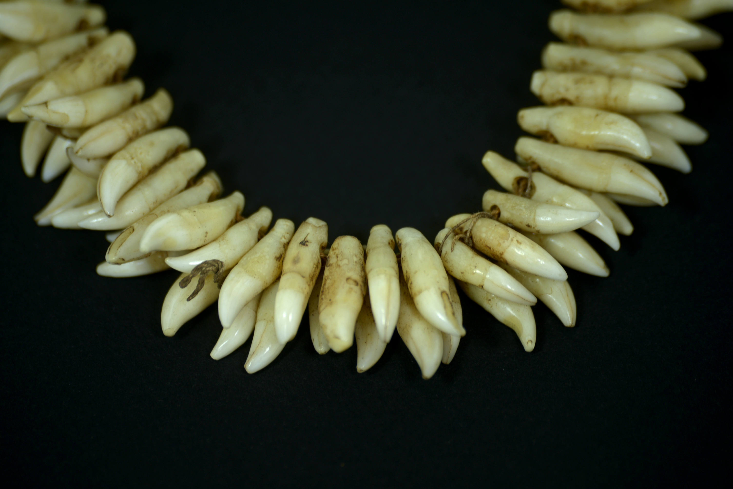 Kanak necklace in common bottlenose dolphin teeth. Kanak Necklace